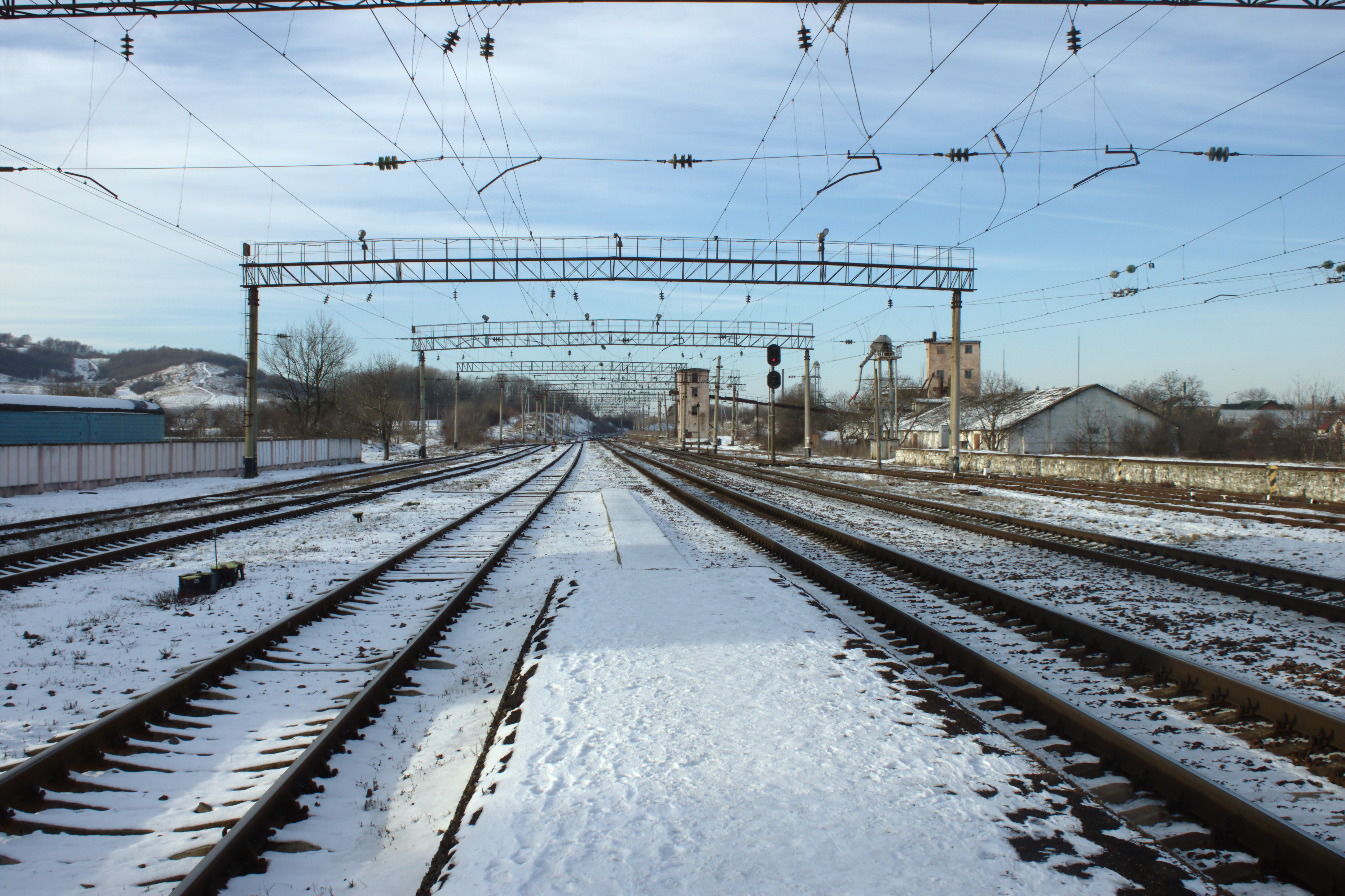 Train station in Zolochiv, Lviv Oblast, Ukraine